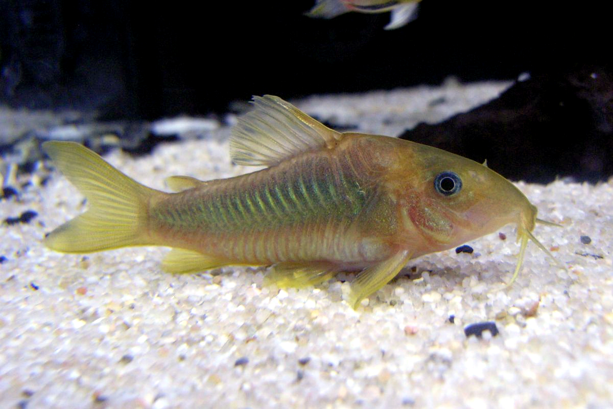 Green Gold Catfish (Corydoras melanotaenia)